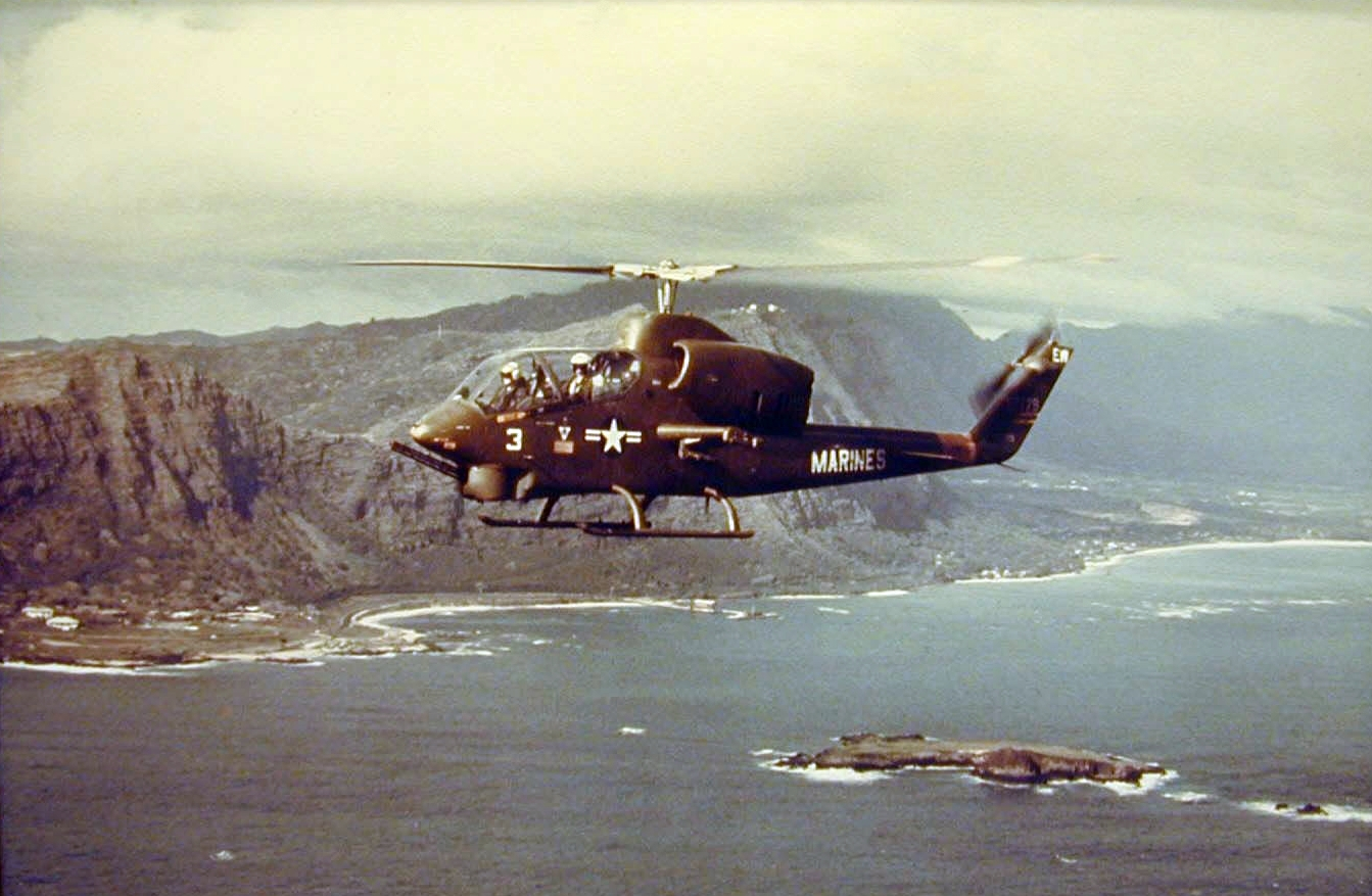 A U.S. Marine Corps Bell AH-1J SeaCobra (BuNo 157776) from Marine Observation Squadron VMO-1 flying off Hawaii (USA).